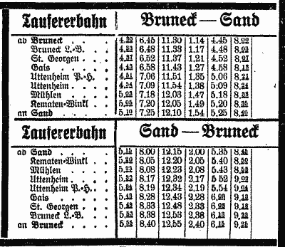 Summer Train Timetable of the Tauferer Bahn Bruneck-Sand-Bruneck from 1922